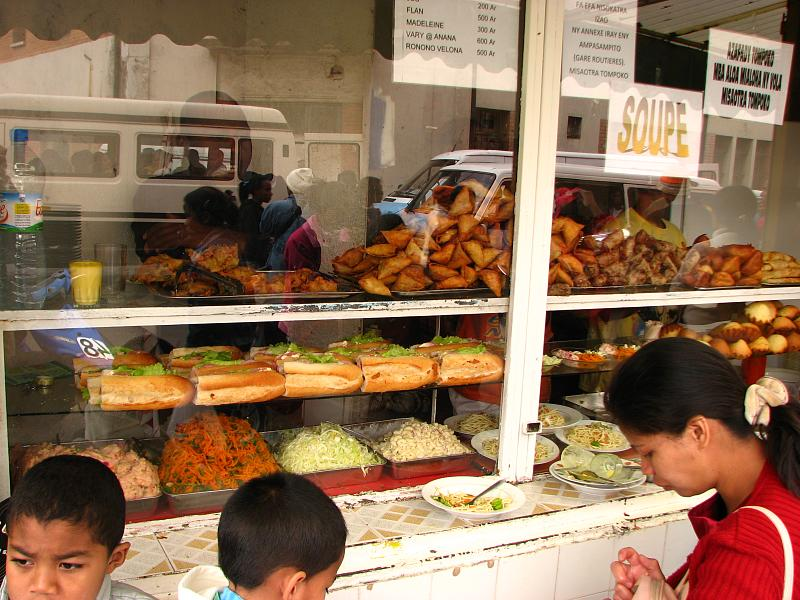 Street food vendor in Antananarivo, Madagascar. Top shelf: Mofo sakay, sambos, nems, mofo makasaoka, crêpes. Middle shelf: Baguette sandwiches, composé, madeleines. Bottom shelf: Achards, ingredients for composé.